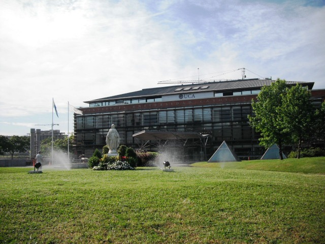 Pontifical Catholic University of ArgentinaLietuvių: Argentinos katalikiškasis universitetas